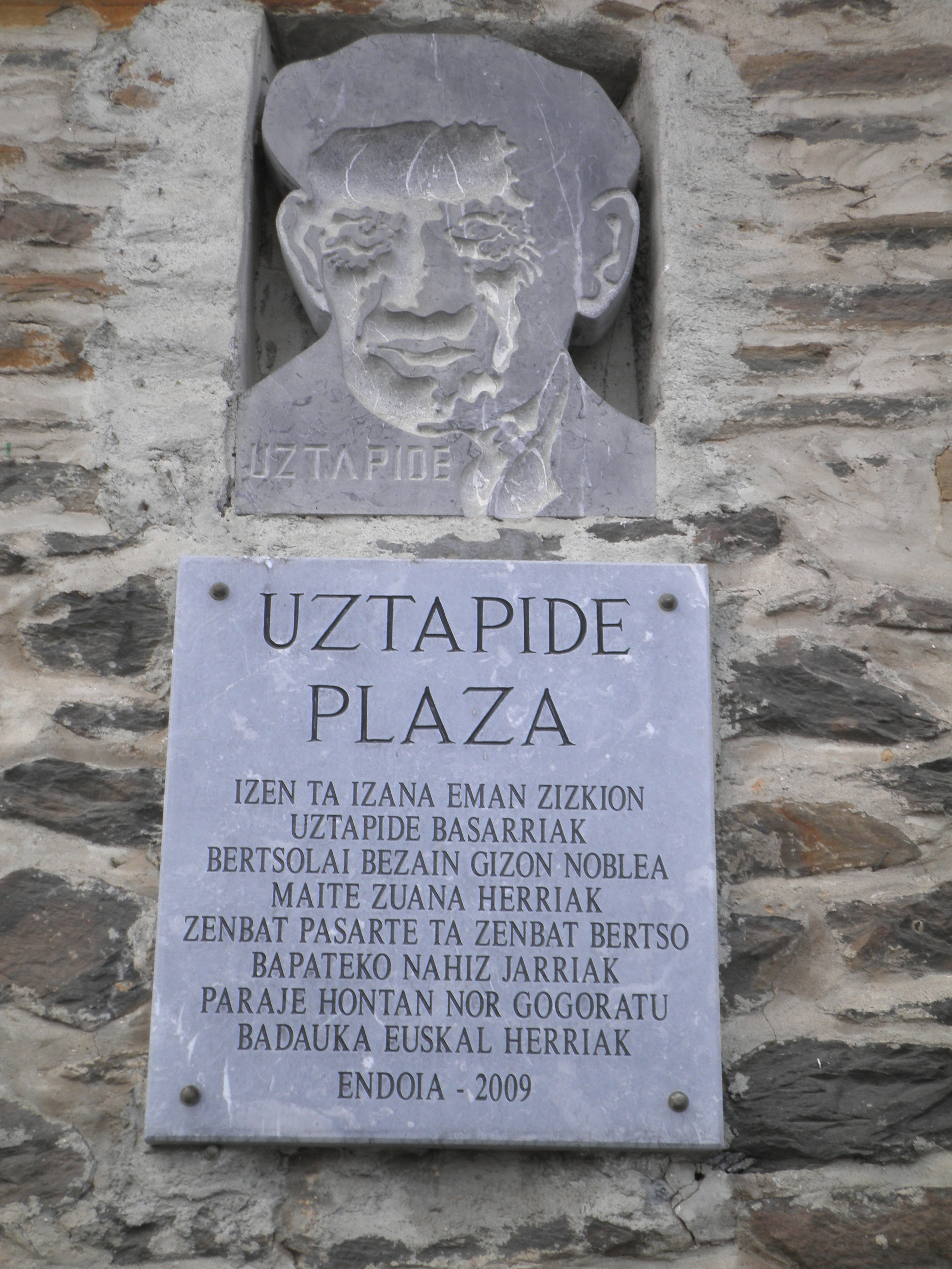 Uztapide monument in Endoia.